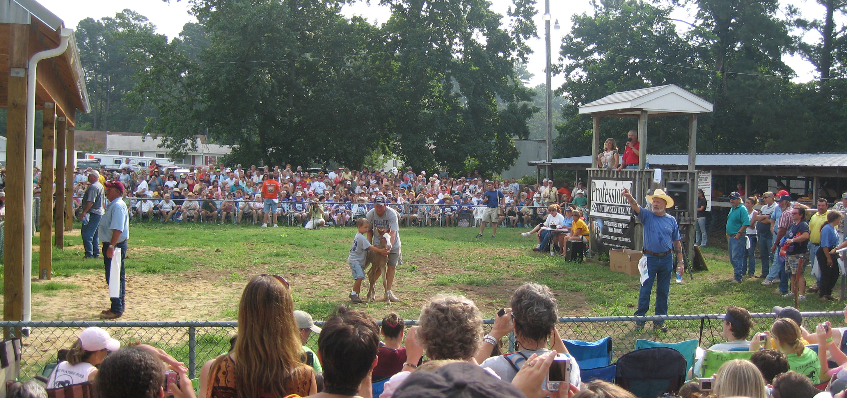 Pony Auction at the Carnival Grounds, Main Street, Chincoteague Island, Virginia during Pony Penning 2008.